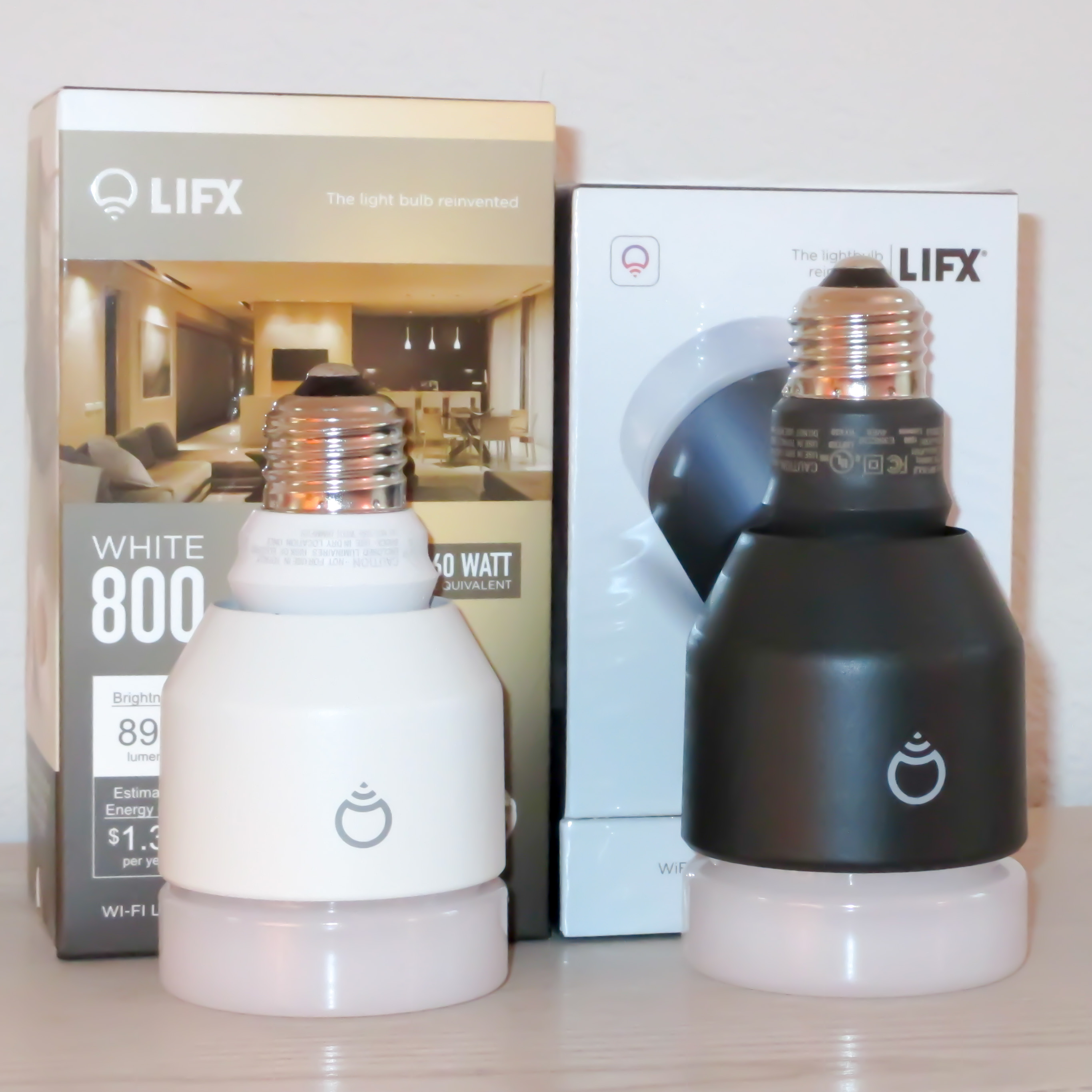 LIFX White 800 (left) and LIFX Original 1000 (right) sitting next to their retail packaging.